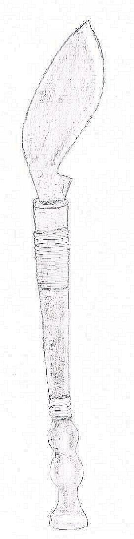 Mangbetu-Chopper